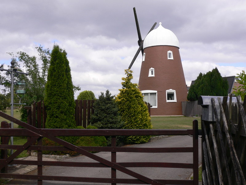 Chalton Mill, Hampshire